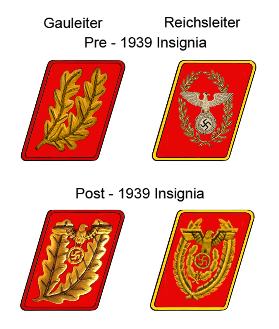 Drawings of Nazi Party rank insignia